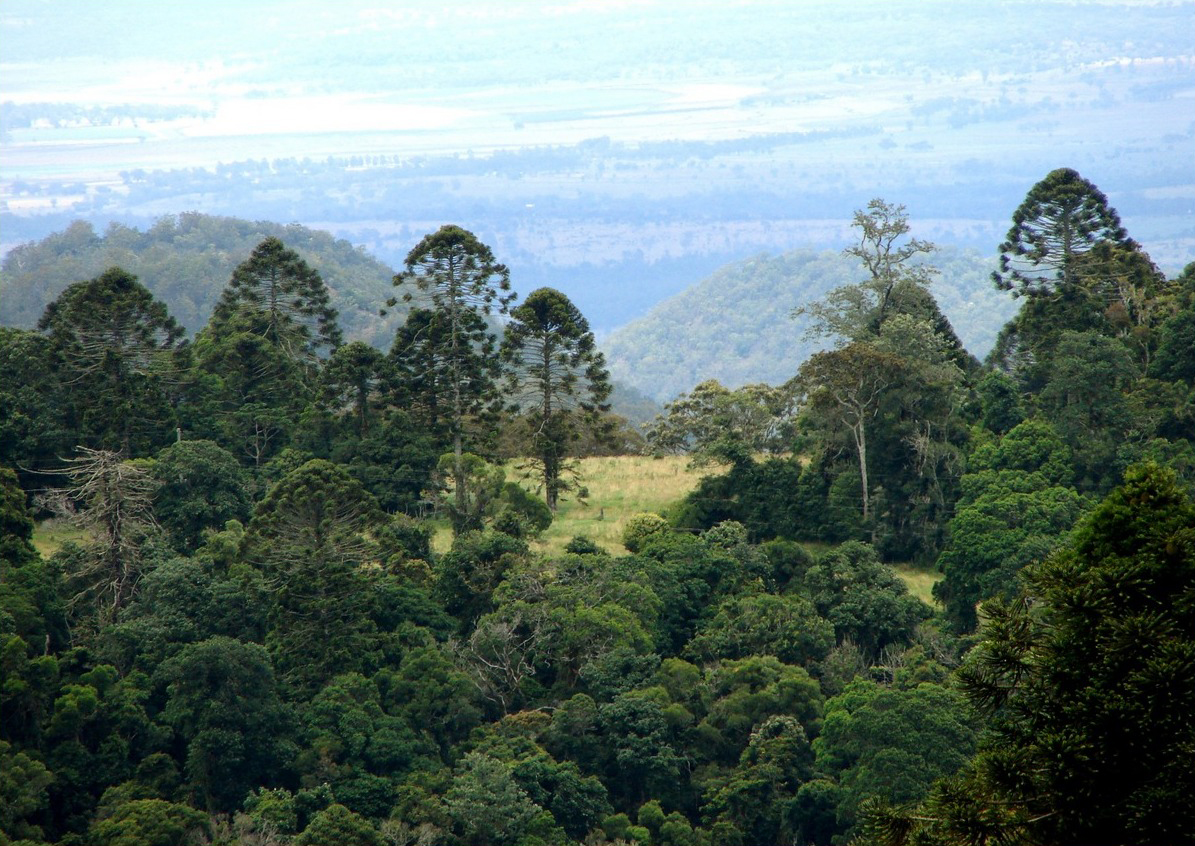 Araucaria bidwillii trees, Bunya Mountains National Park, Queensland, Australia, 26°54'09"S 151°37'51"E, 865m altitude